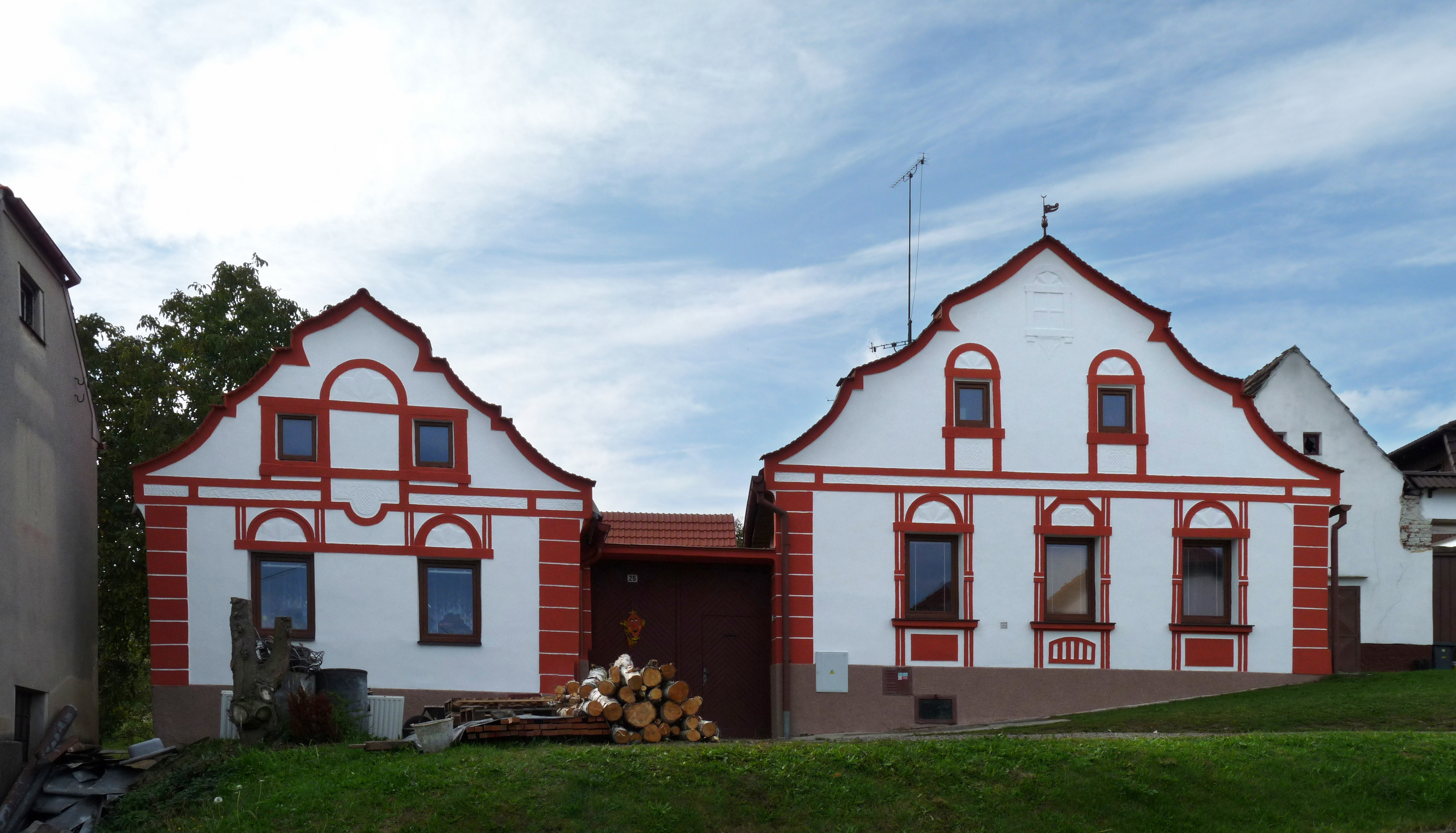 House No 25 in the village of Netřebice, Český Krumlov District, South Bohemian Region, Czech Republic.